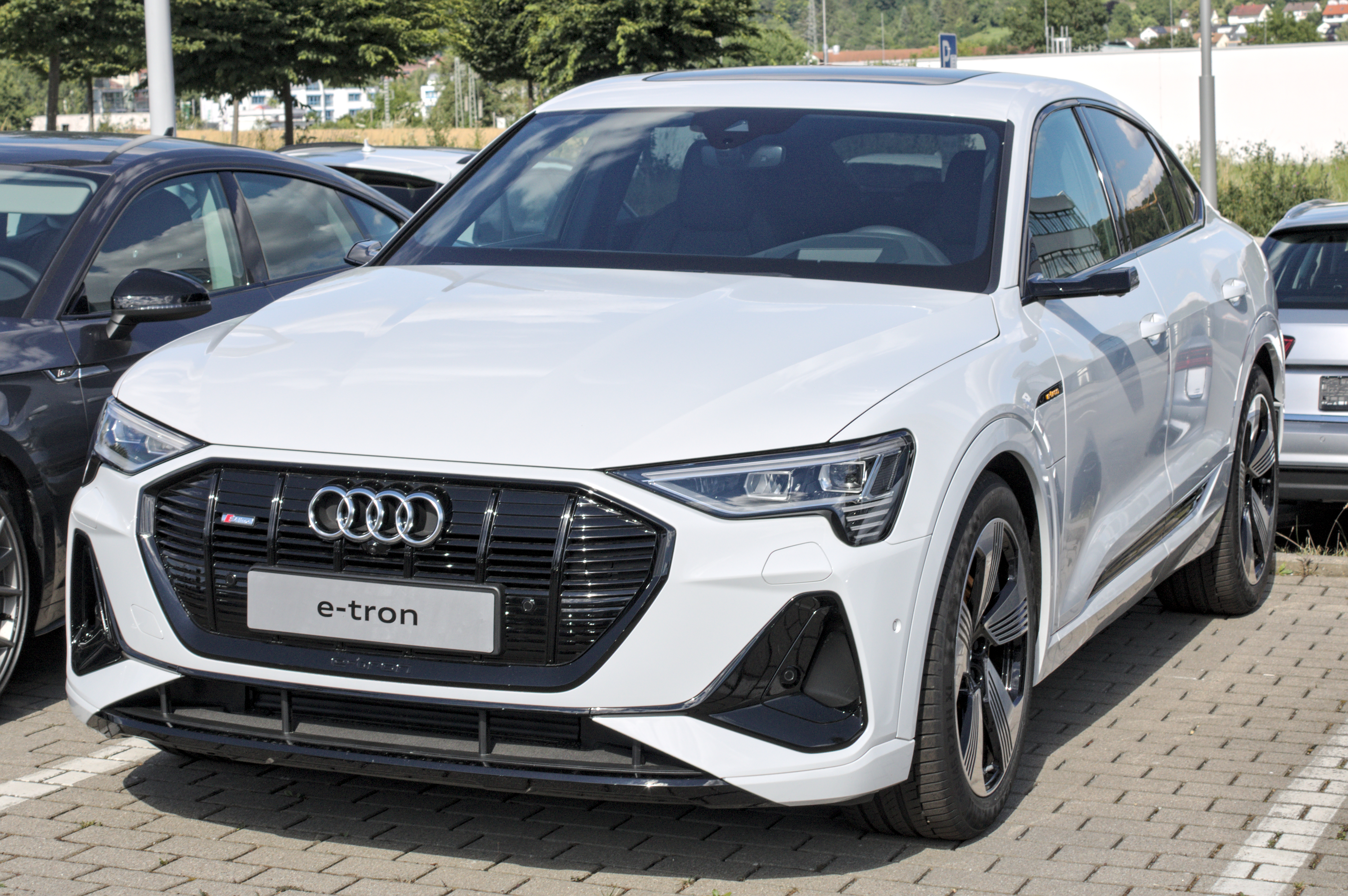 Audi_e-tron_Sportback in Herrenberg